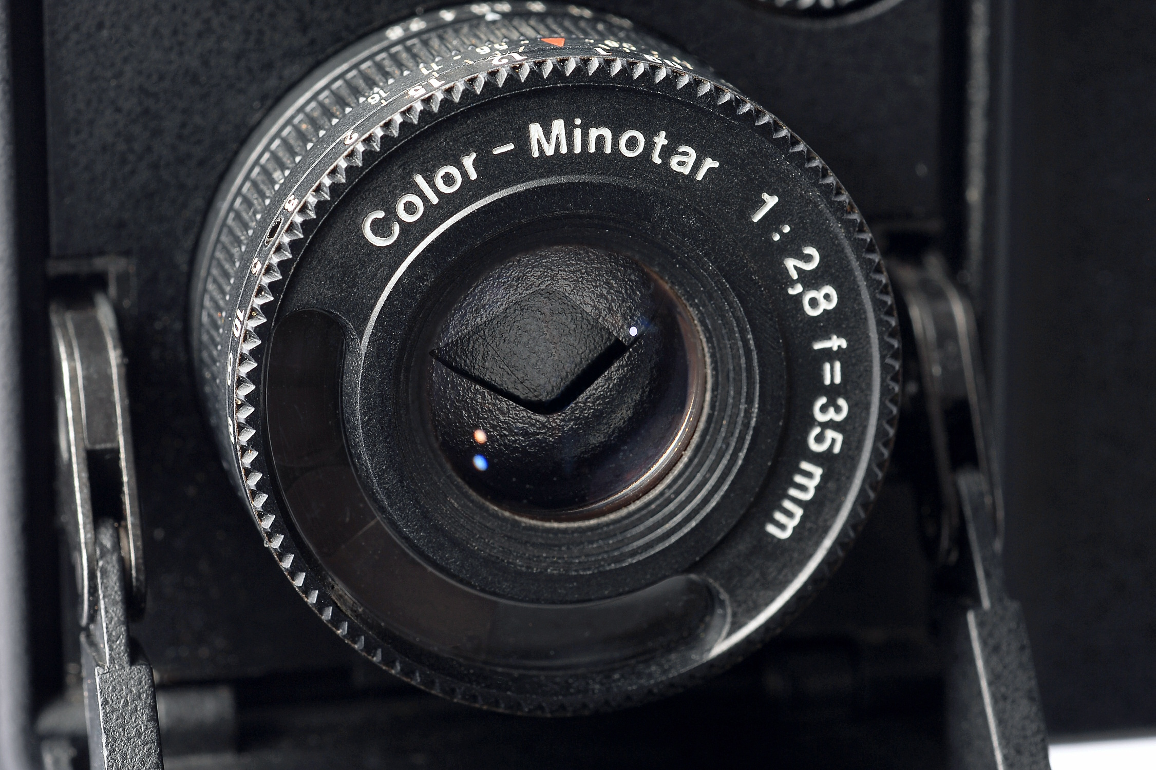 Minotar lens of a Minox 35 GL camera. Aperture and shutter elements are visible. The image is a combination of two pictures with different distance settings.